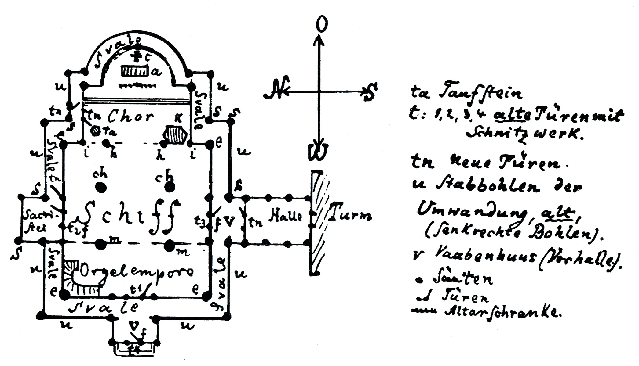 Vang Stave Church - Footprint 1844